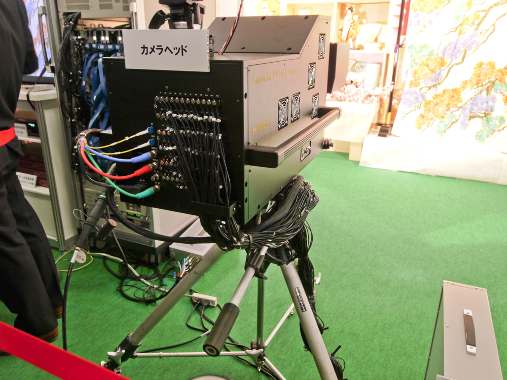 Hitachi 8K camera (2009 version) in NHK Science and Technology Research Laboratories.